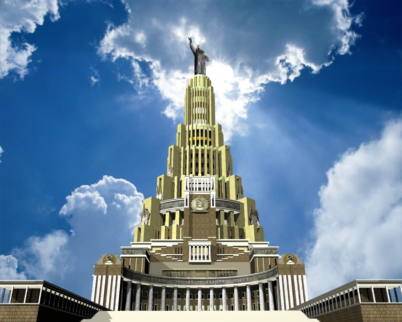 Palace Of Soviets the Soviet Union, (done in 3D Max)